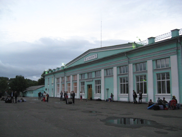 Vanino-Vokzal railway station